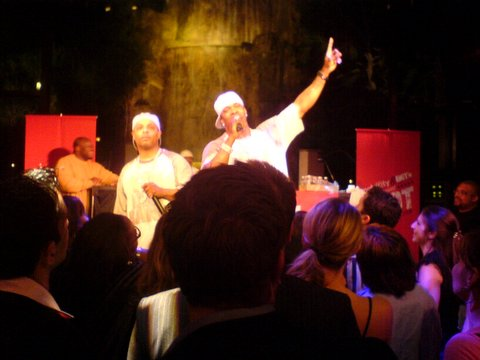 at the Wynn in Las Vegas for the Motricity/BET party.